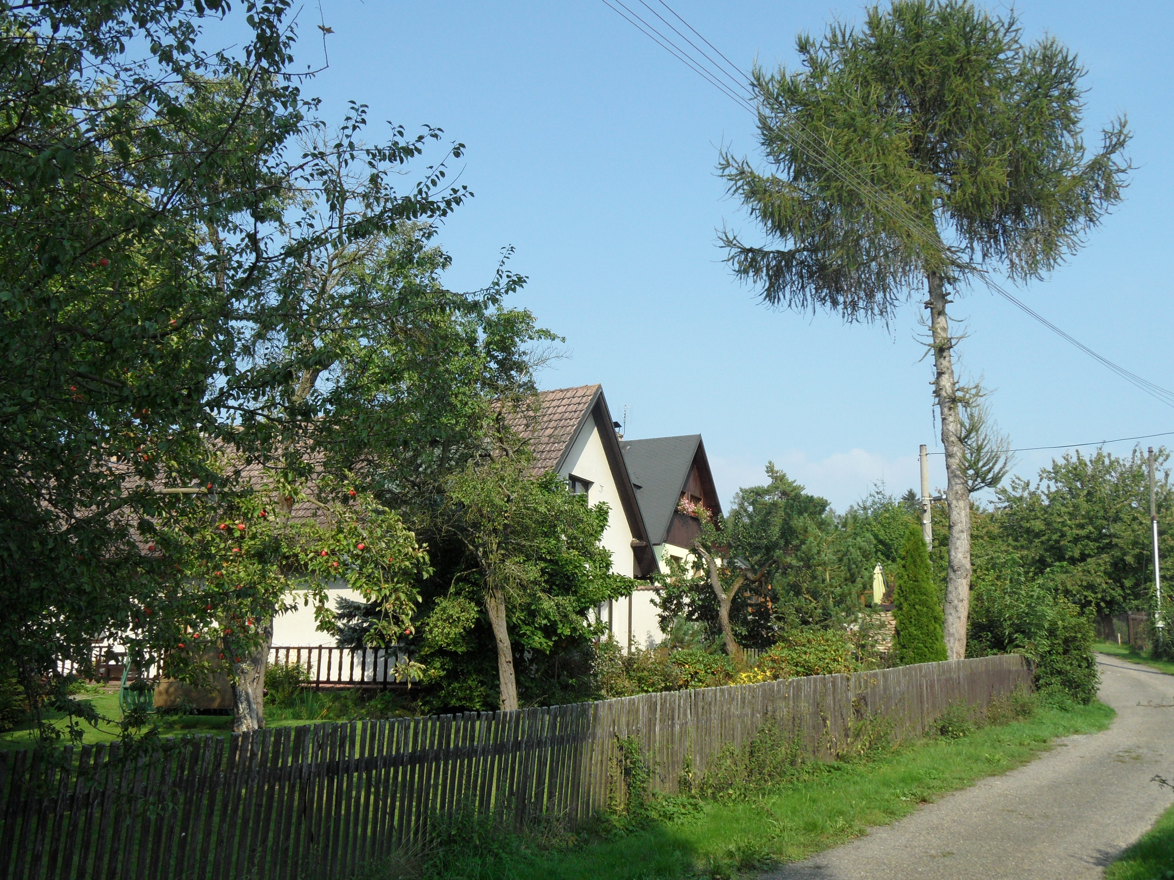 Brandýs (Chabeřice) A. Houses under Trees, Kutná Hora District, the Czech Republic.